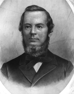 John Appleton, 4th United States Assistant Secretary of State